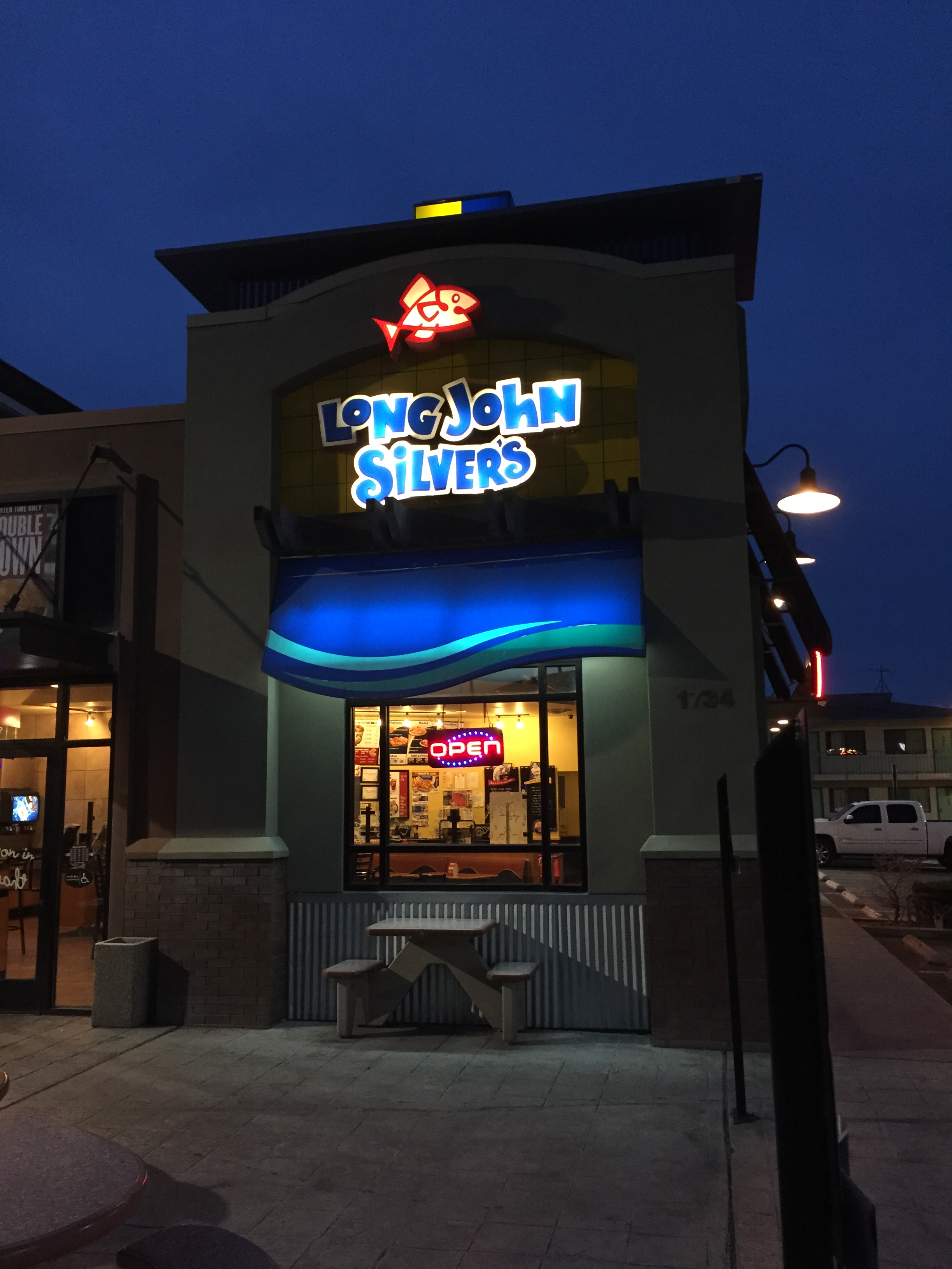 Long John Silvers restaurant at night along West Winnemucca Boulevard (U.S. Route 95 and Interstate 80 Business) in Winnemucca, Nevada